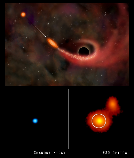 Top: artist's conception of a supermassive black hole drawing material from a nearby star. Bottom: images believed to show a supermassive black hole devouring a star in galaxy RXJ 1242-11. Left: X-ray image, Right: optical image.